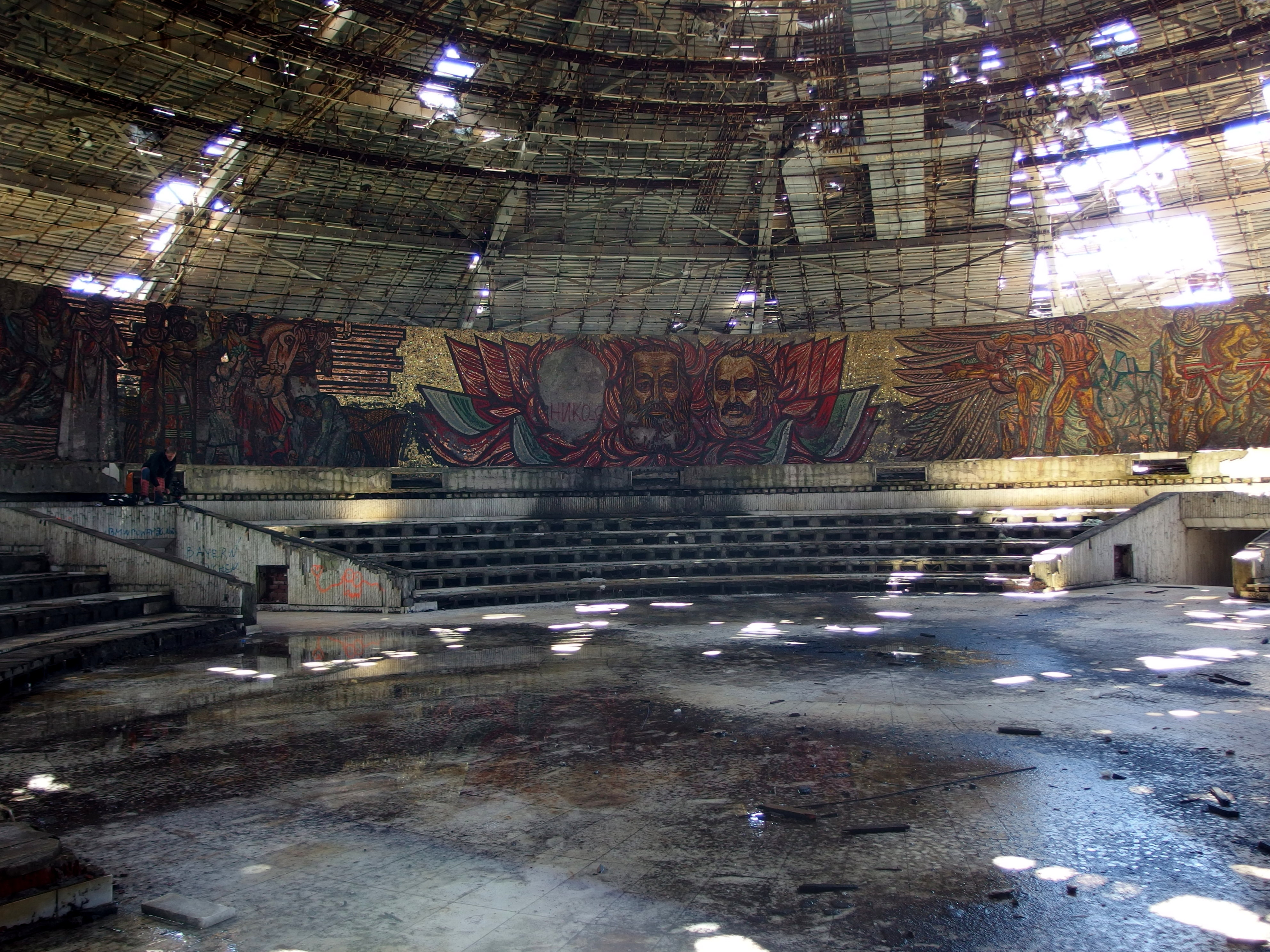 2014-06-22 at Buzludzha.